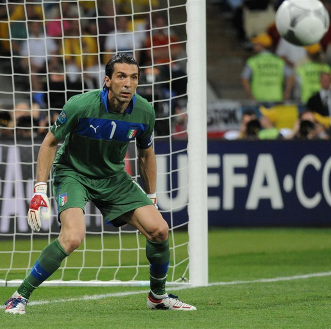 Gianluigi Buffon at Euro 2012 final Spain-Italy